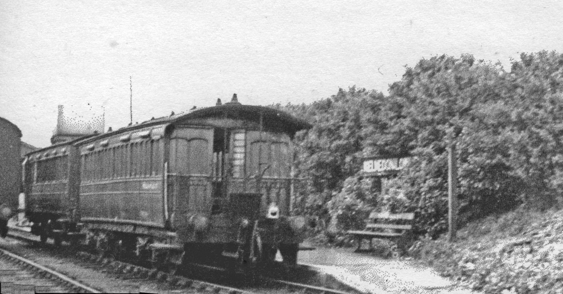 Kelvedon (Low Level) station, 1950View SW towards buffers, the High Level station being beyond and above. The coaches, with glazed end-vestibule, are (probably)[?] from the former Wisbech & Upwell Tramway, the service from Tollesbury being still in operation: it ceased from 7/5/51, goods from 29/10/51 (from Tiptree from 28/9/62).